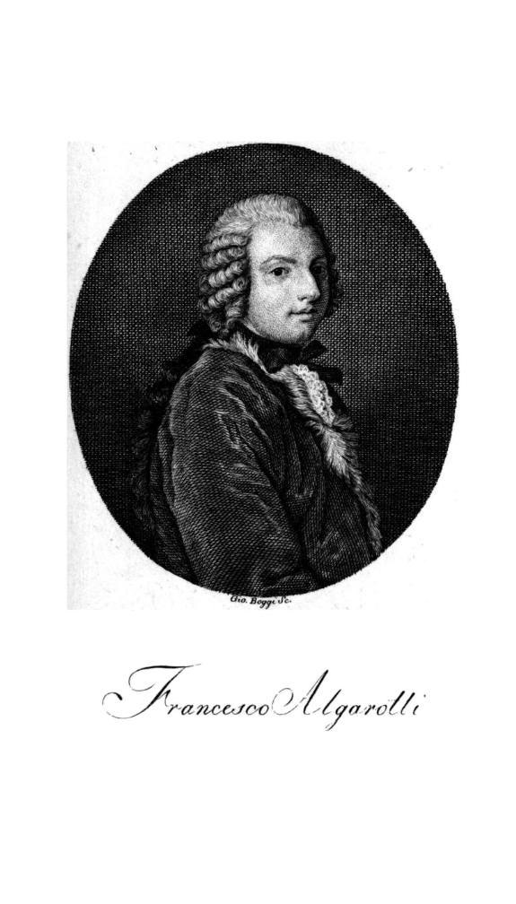 Francesco Algarotti's Portrait, from his Book of Essays